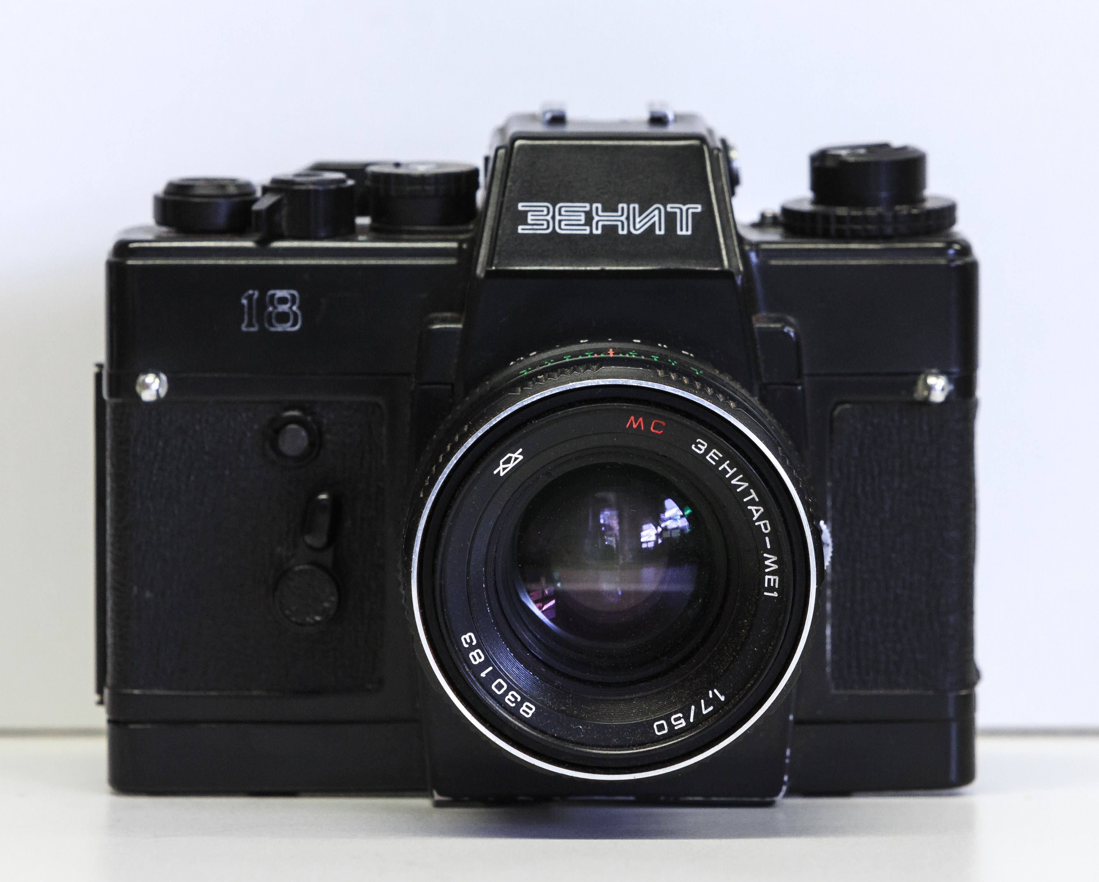 One of the top Russian SLR camera making in early 80s.